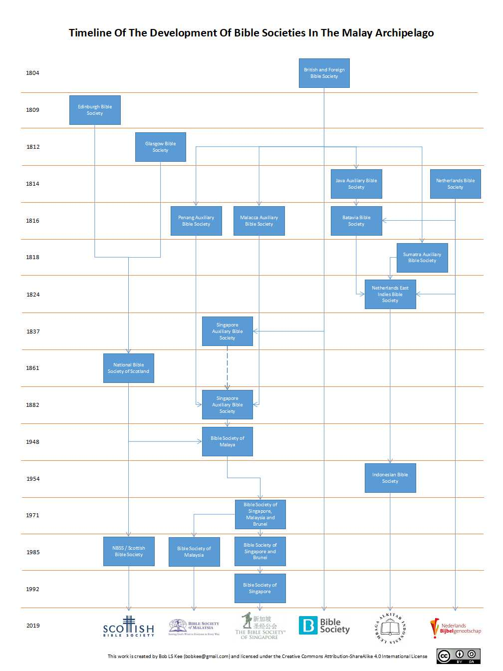 Family tree of the Bible Societies in the Malay Archipelago